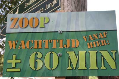 Zoop fandag